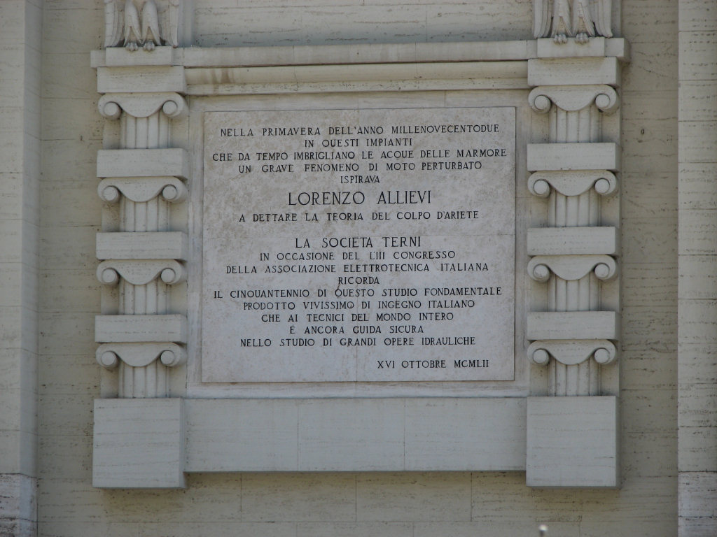 Photo taken in front of the Galleto hydroelectric power plant by myself.